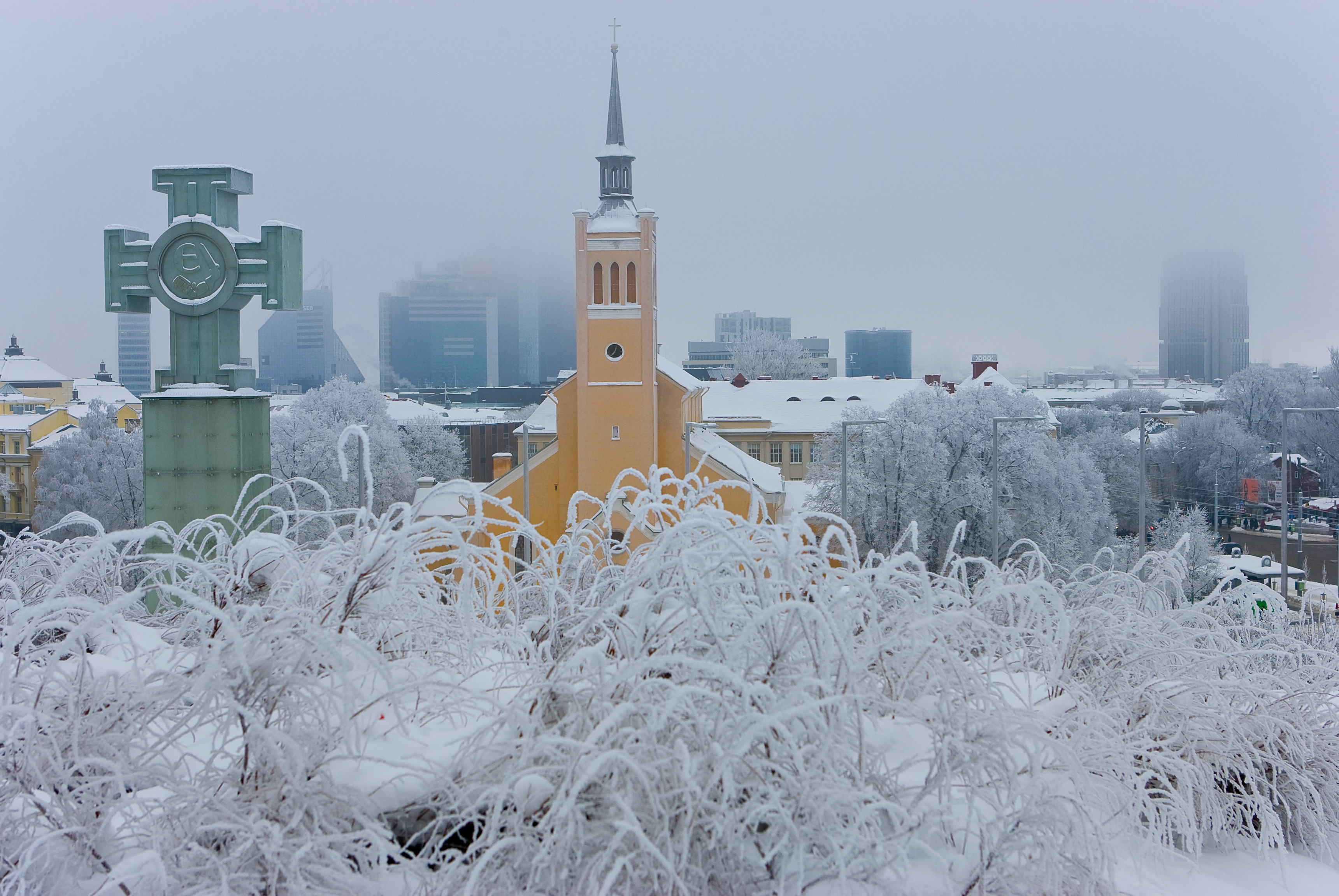 St. John's Church and War of Independence Victory Column, Tallinn, Estonia